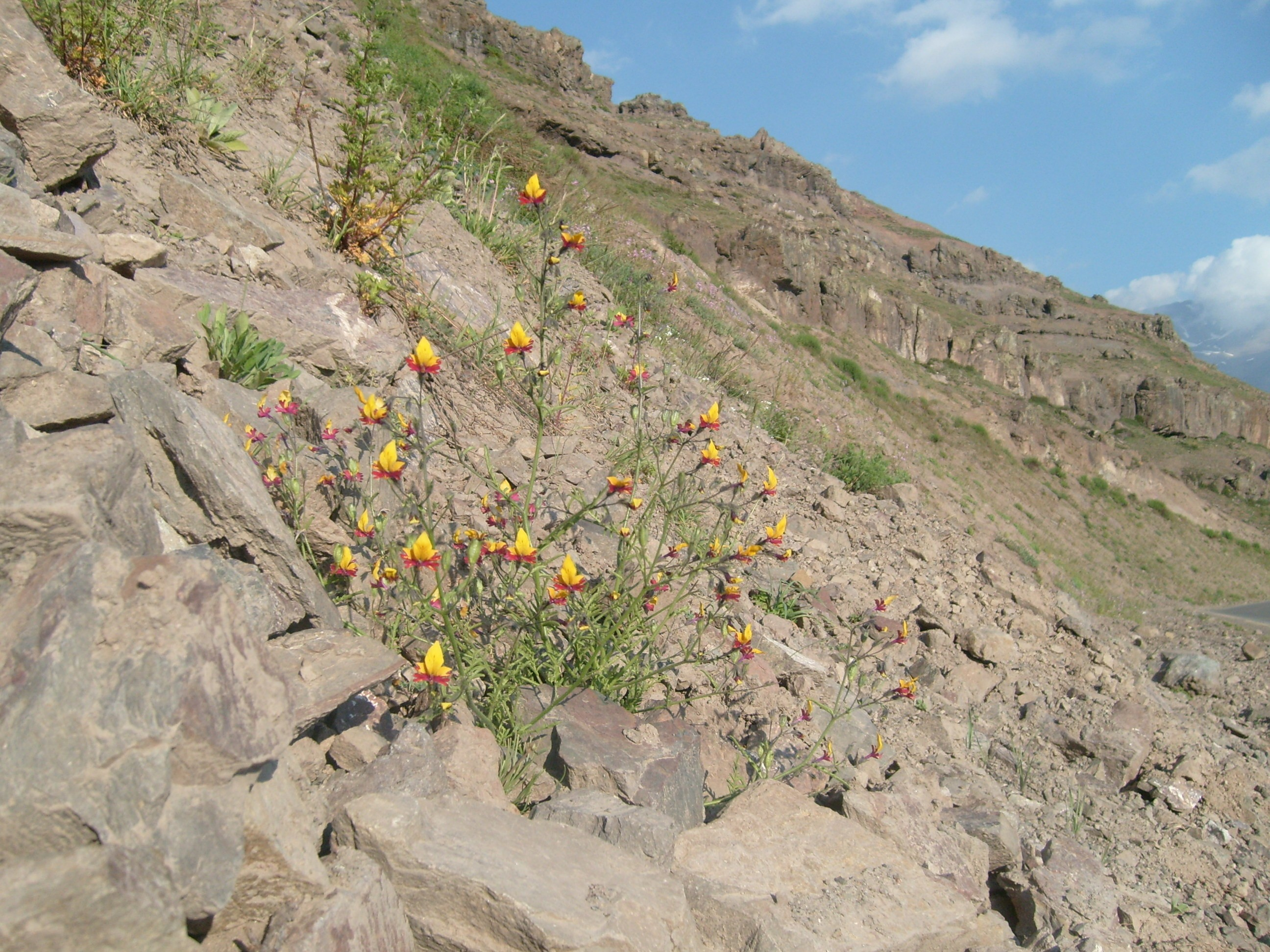 Schizanthus grahamii, Valle Nevado Lo Barnechea.-Chile